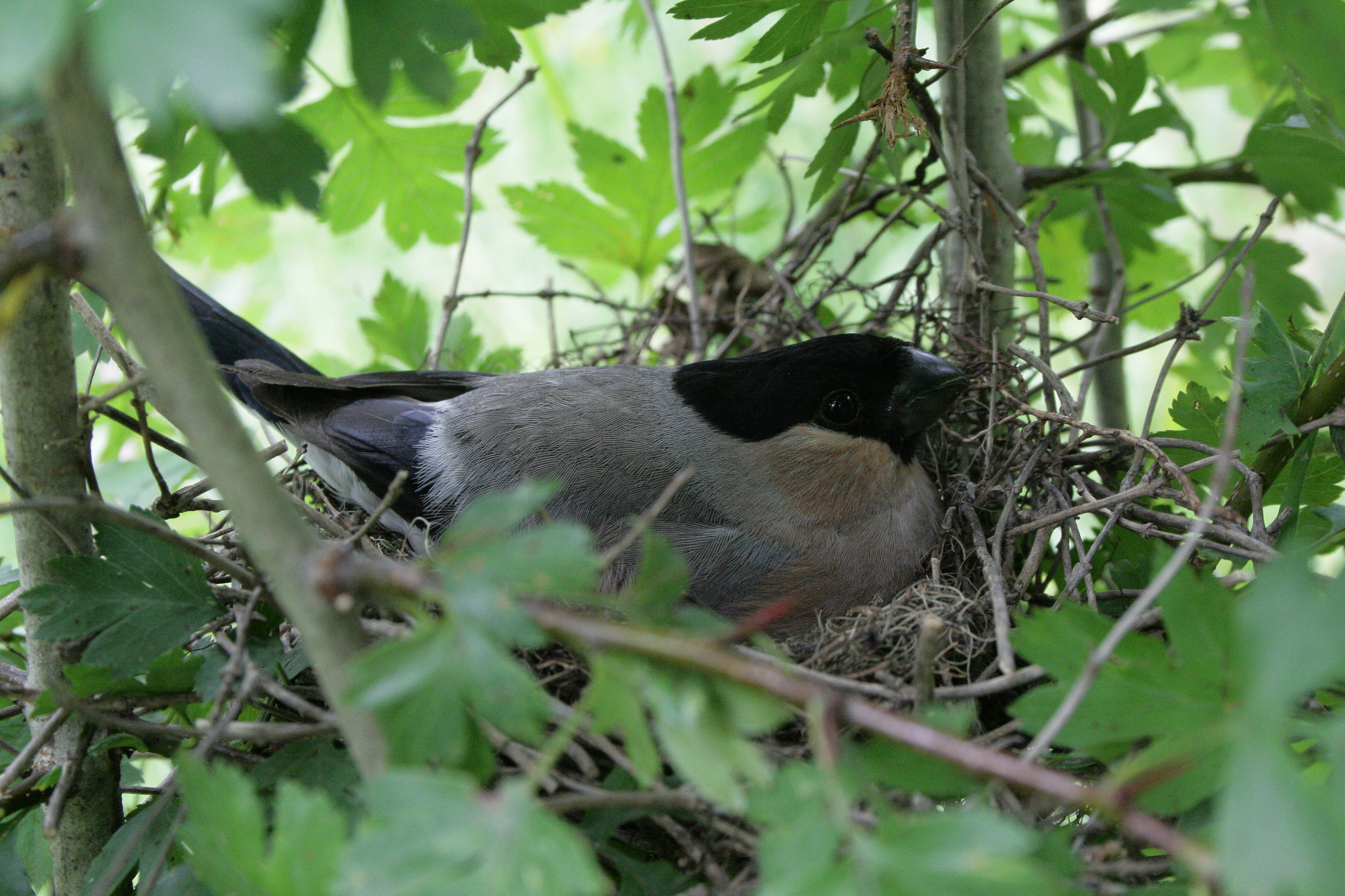 At one of halts, I found myself opposite the nest of the bullfinch. Few seconds we looked at each other, then I stood up, apologized for the inconvenience and and continued my way.